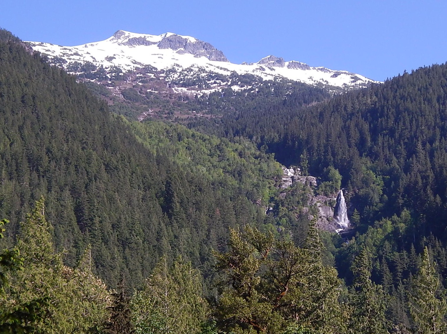 Big Devil Peak and Big Devil Falls seen from North Cascades Highway, Washington state